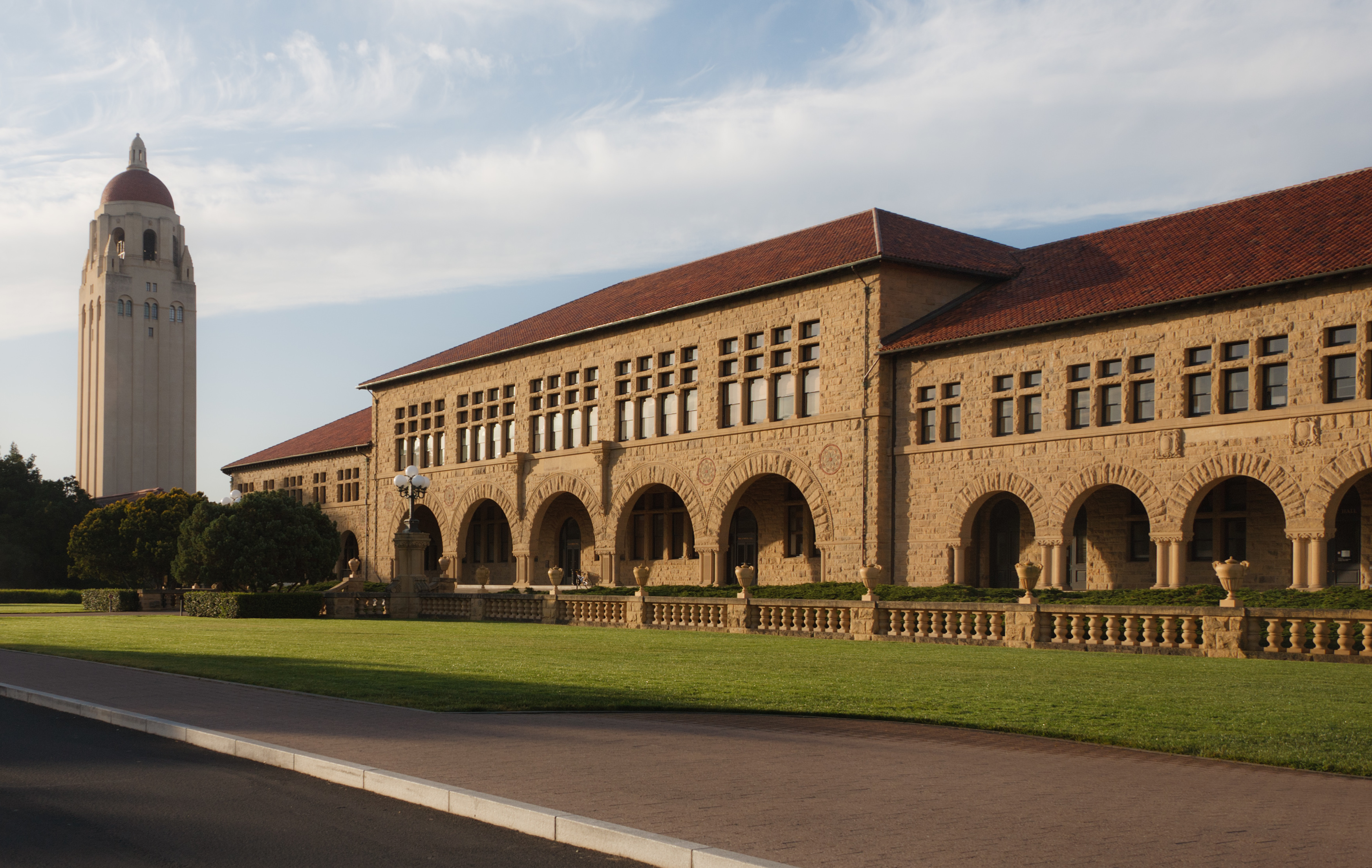 Hoover Tower and McClatchy Hall, Stanford University, Stanford, California.